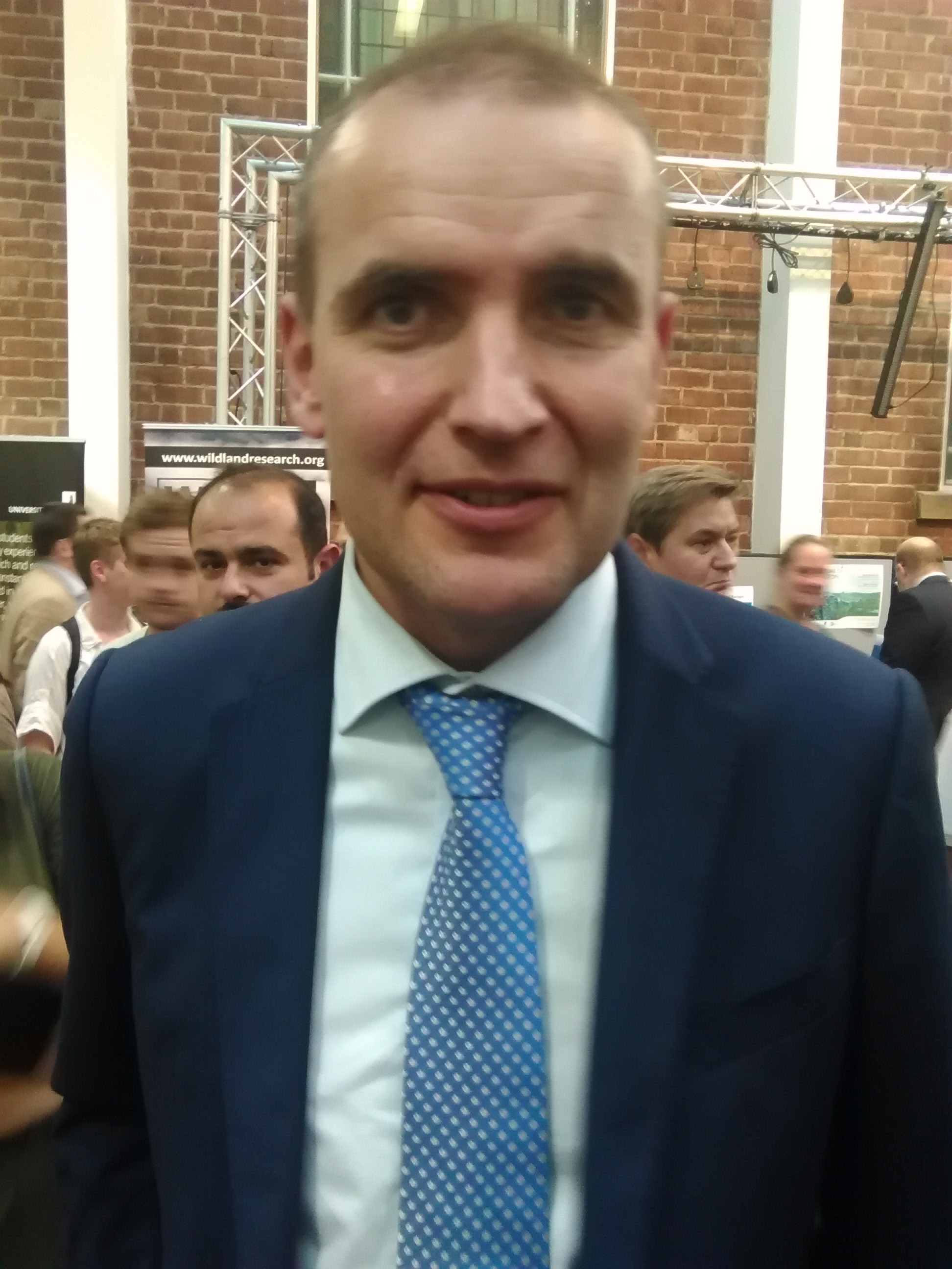 Guðni Thorlacius Jóhannesson, after giving talk at the University of Leeds on the Past, Present and Future of Wild Europe